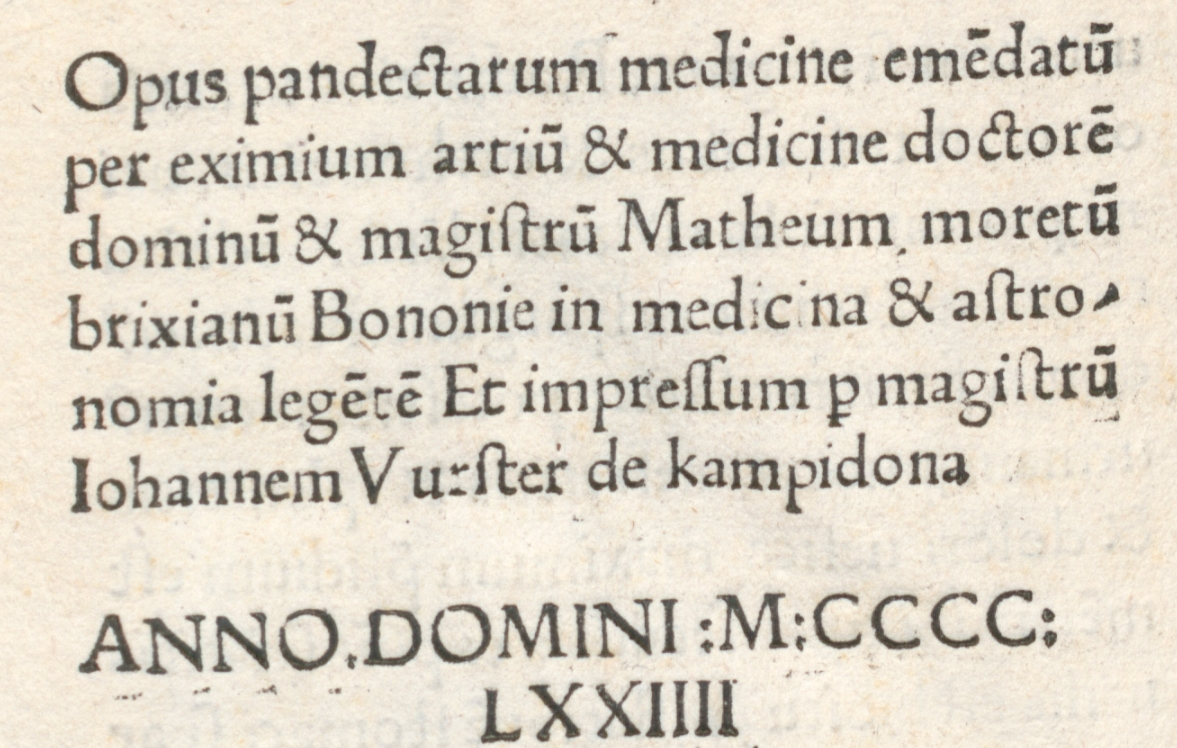 Matthaeus Silvaticus, Liber pandectarum medicinae (Bologna? 1474) colophon